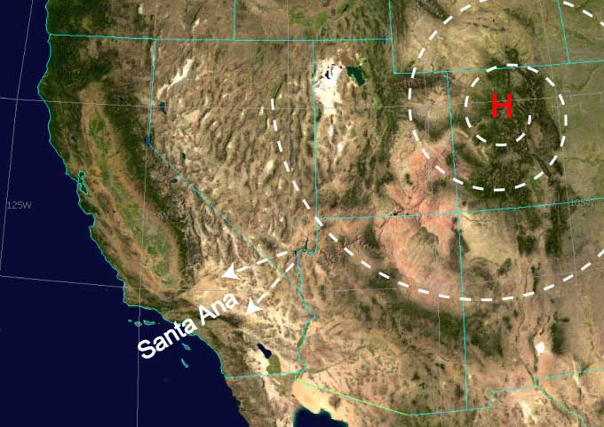 Schematic Santa Ana wind synoptic conditions by Piotr Flatau The background was generated using (open source) NASA Worldwind program [1] and Adobe Photoshop and Adobe Illustrator was used to add other elements. Pflatau 21:06, 3 March 2006 (UTC)